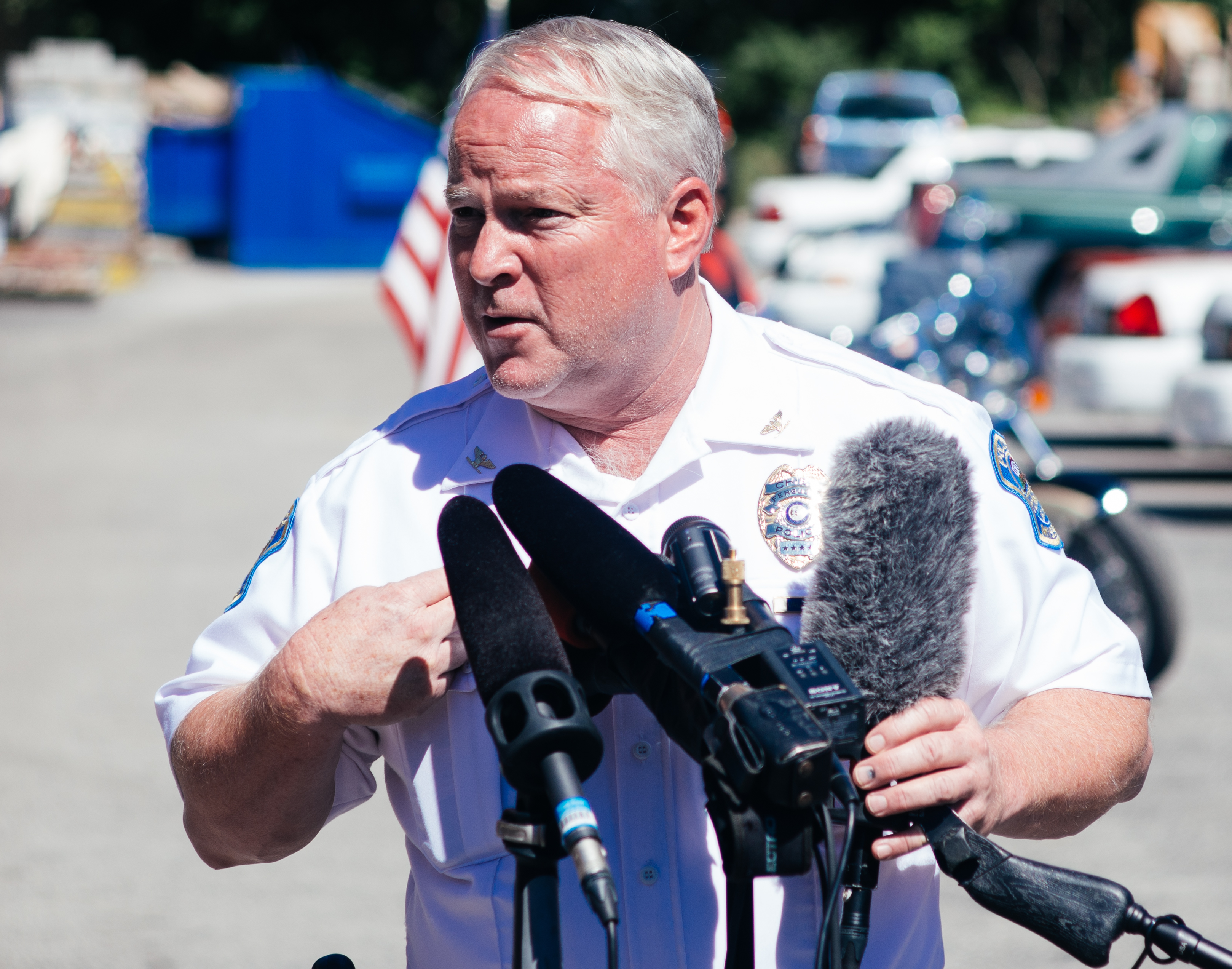 Thomas Jackson (police officer) addresses reporters at press conference.